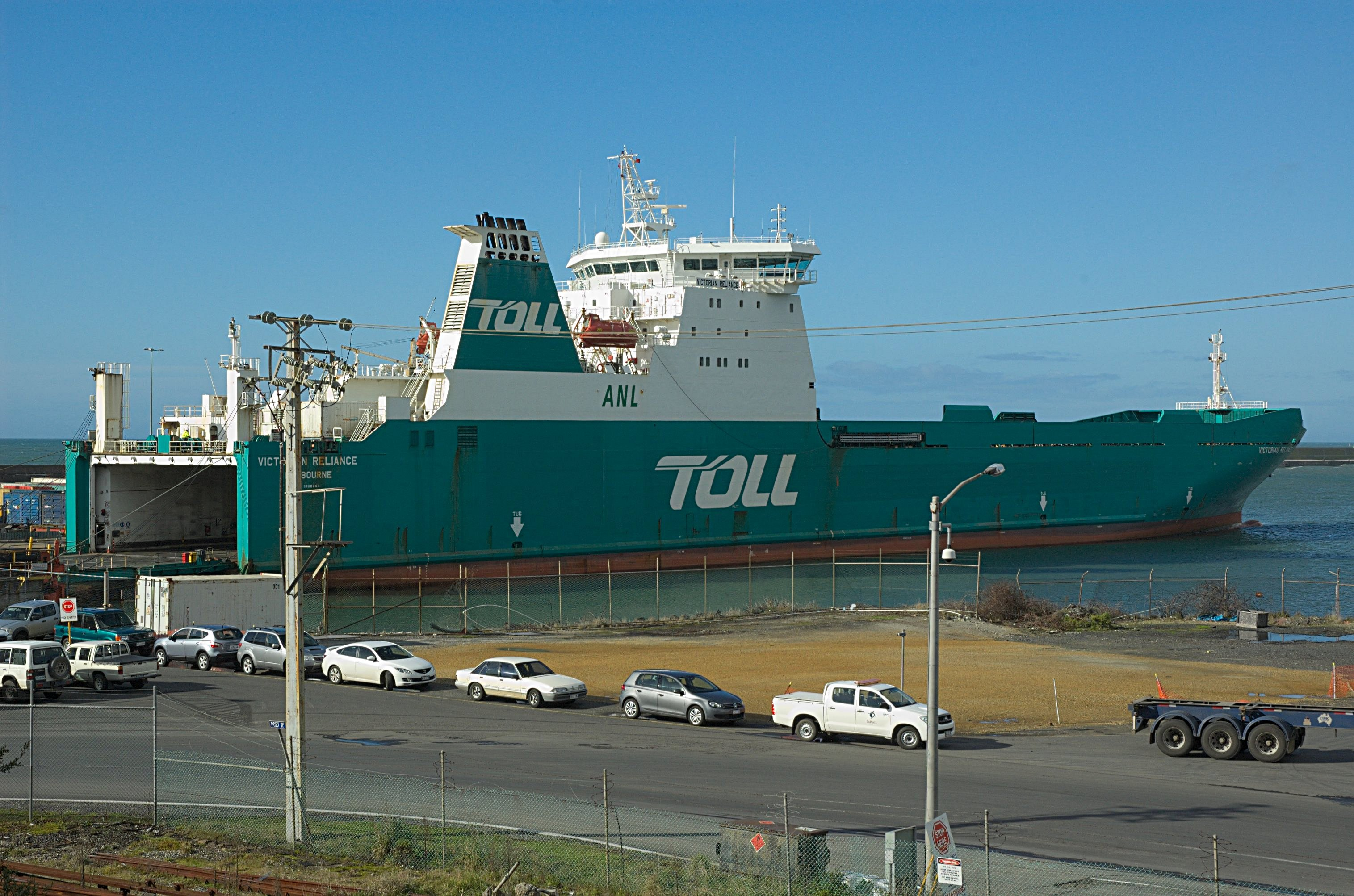 Victorian Reliance ship at Port of Burnie No. 4 berth, Tasmania.